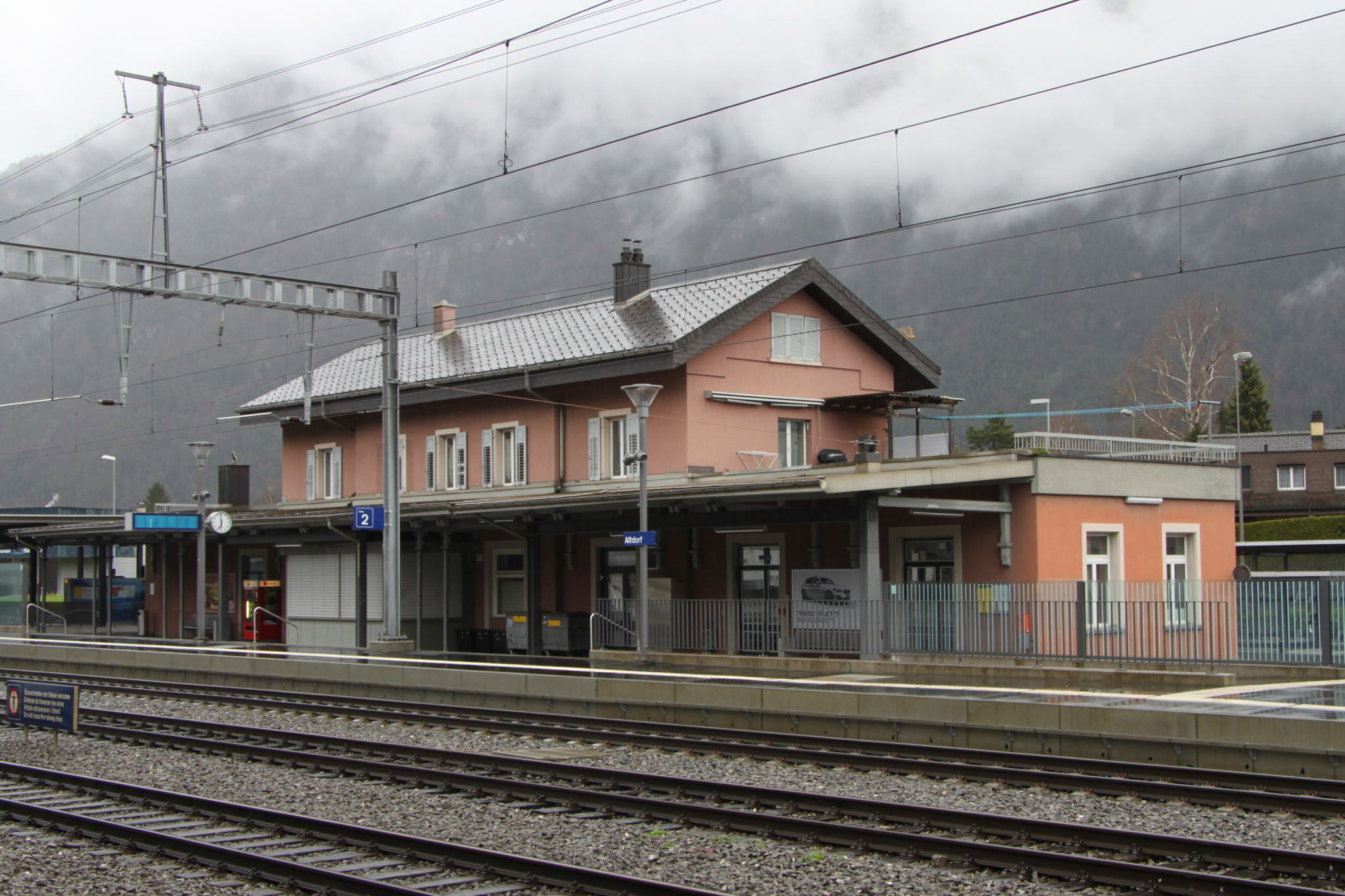 Altdorf train station.